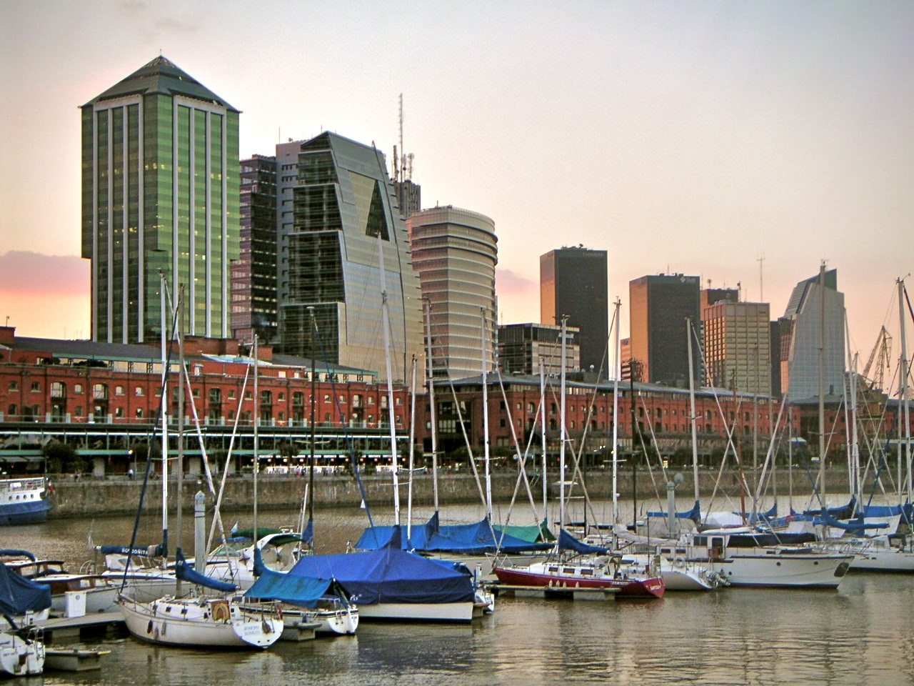 View of Dock 3 in the Puerto Madero district of Buenos Aires and of the city's financial district in the background.